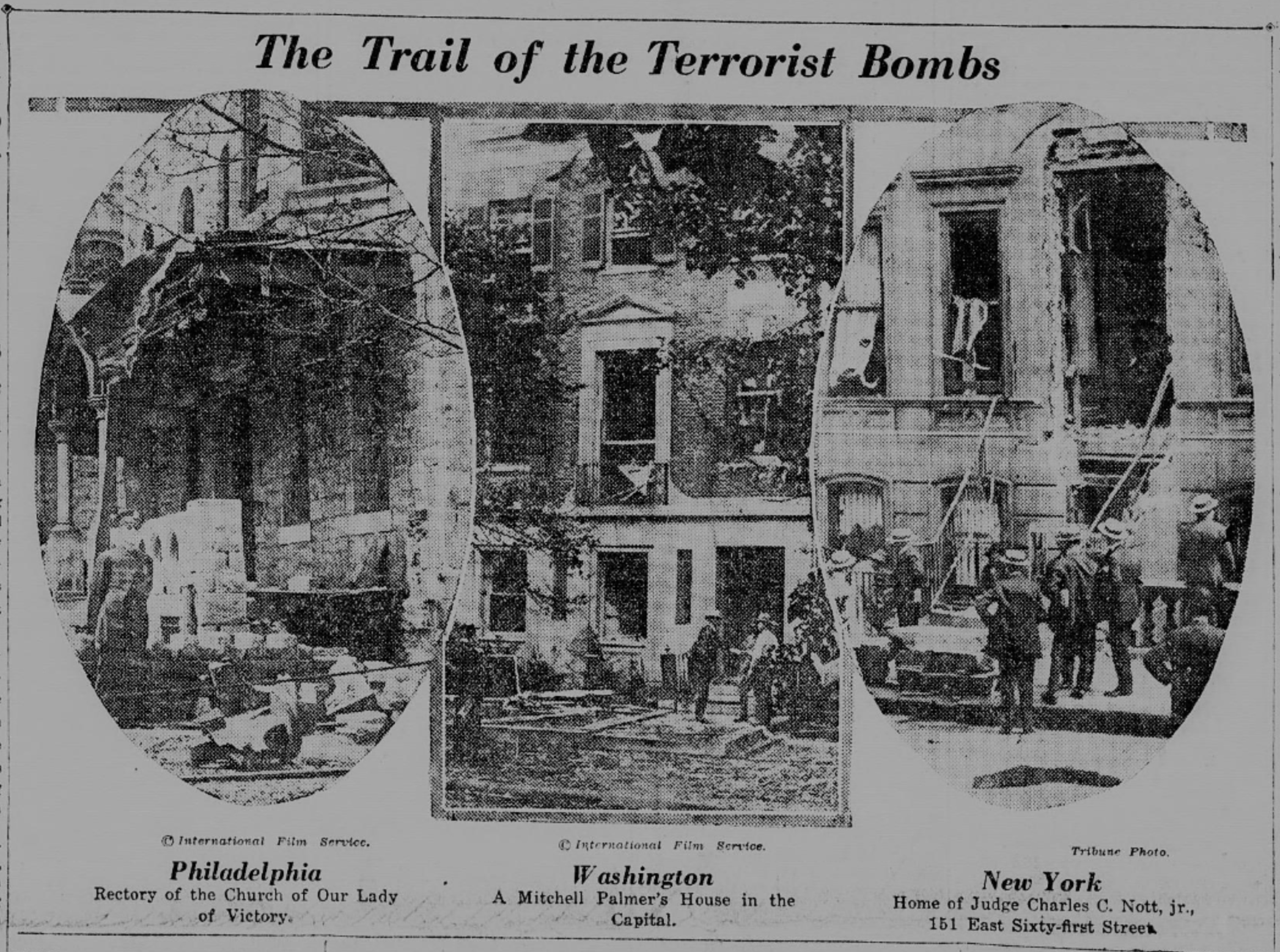 Philadelphia - Rectory of the Chuch of our Lady of Victory Washington - A Mitchell Palmr's house in the capital New York - Home of Judge Charles C. Nott, Jr., 151 East Sixty-first Street